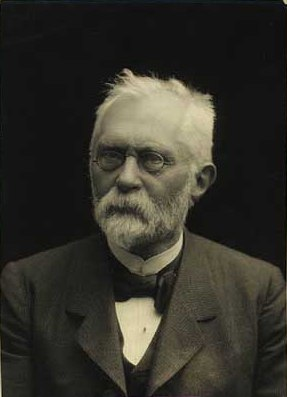 Johannes Eugenius Bülow Warming (1841-1924), Danish botanist